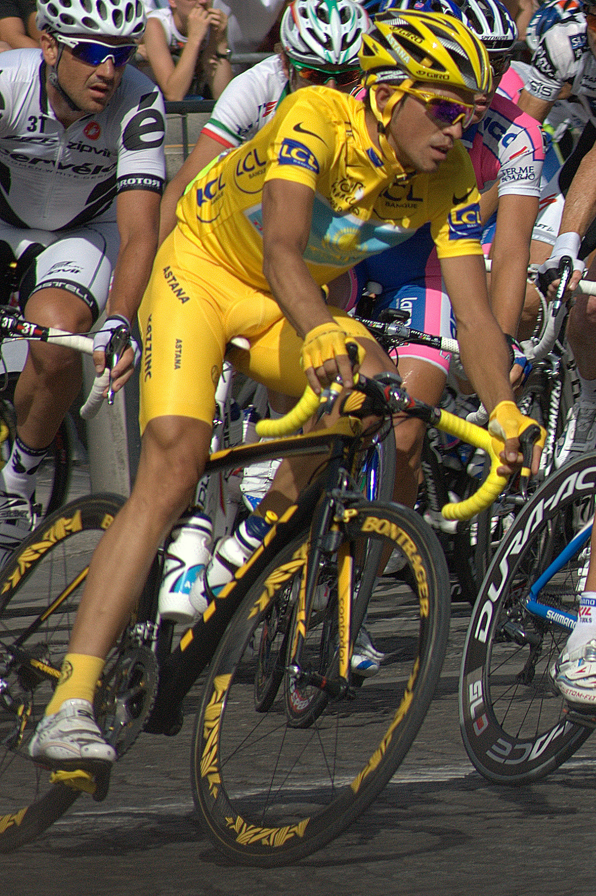 Alberto Contador on Champs-Élysées